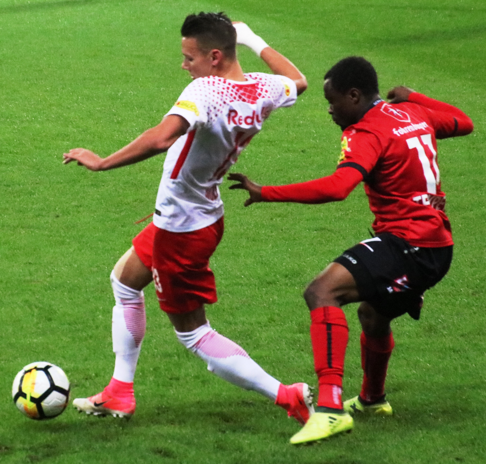 Bundesliga Austria league match